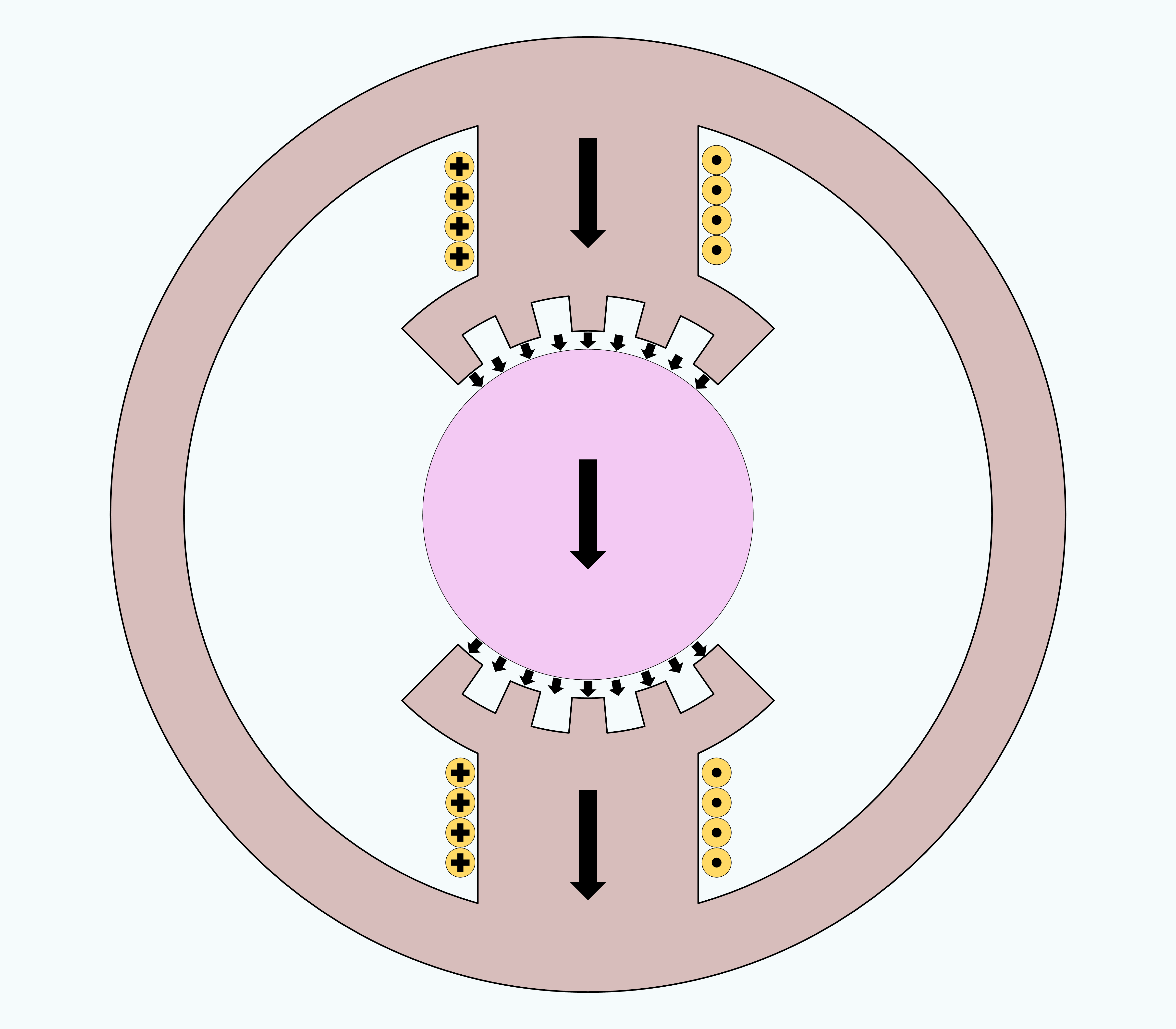 Cross section of DC motor with compensation windings showing magnetic flux due to field windings.